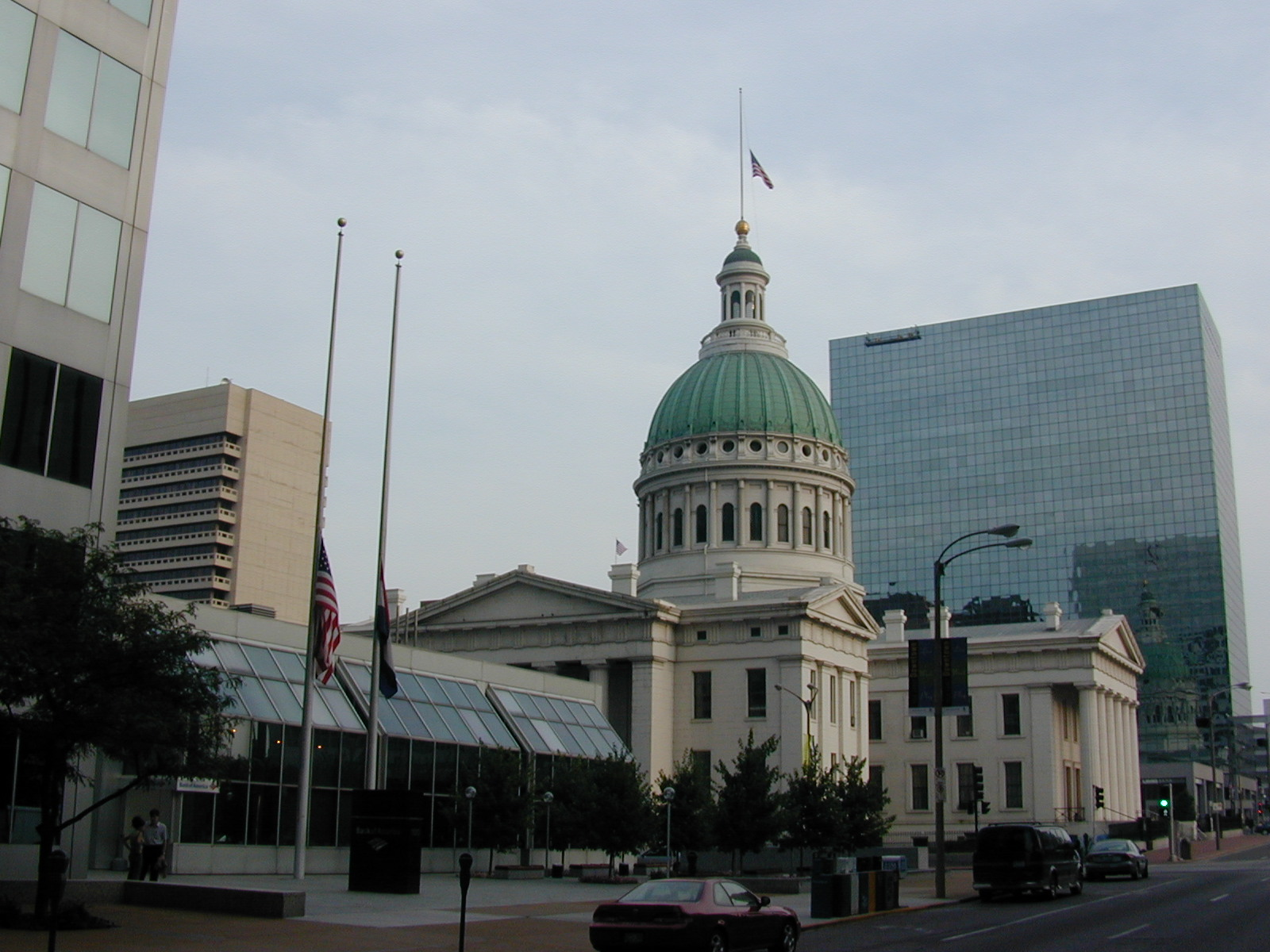 St. Louis: Old Courthouse Jan Kronsell, July 2004